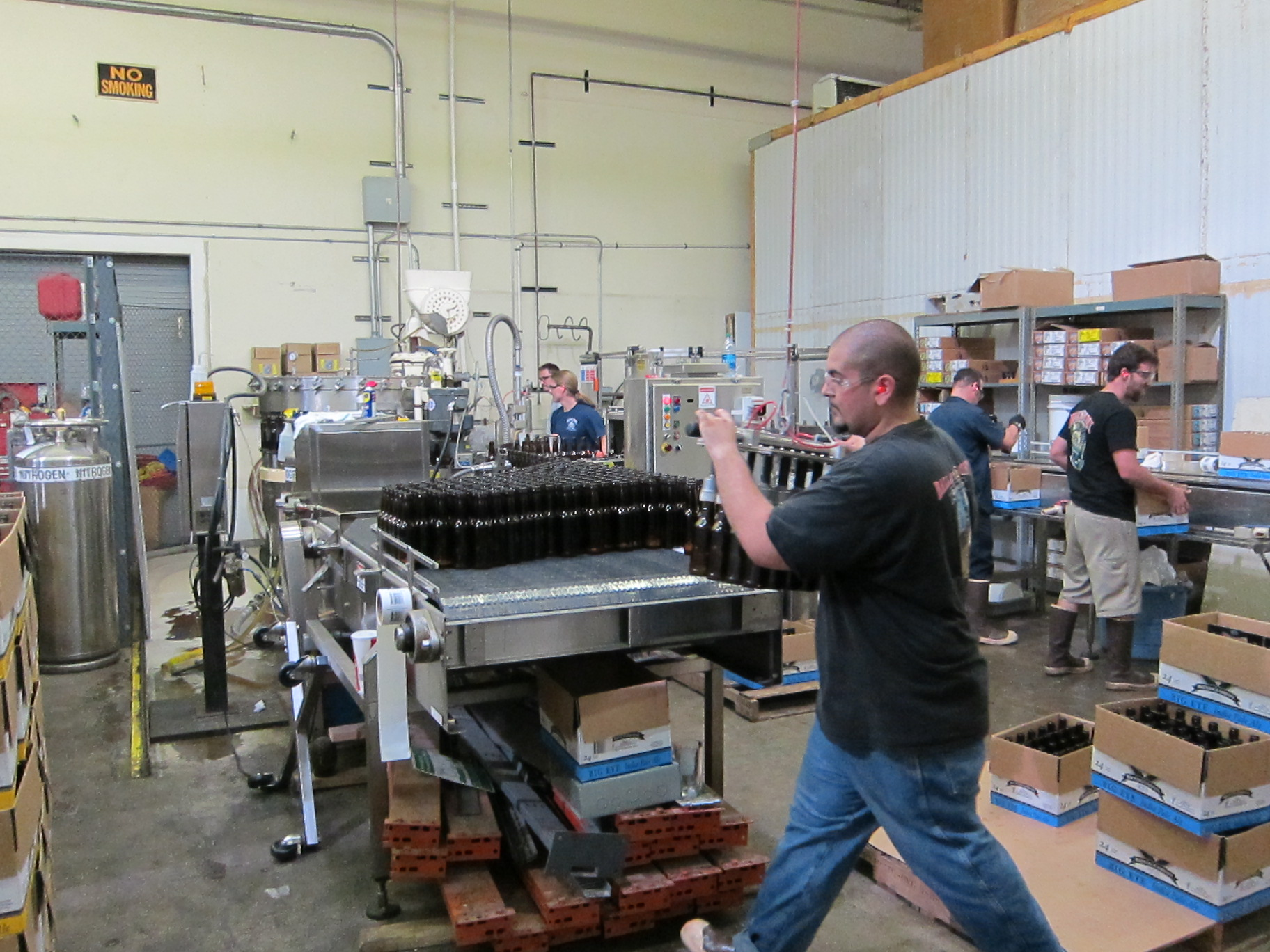 Bottling line at Ballast Point Brewing Company